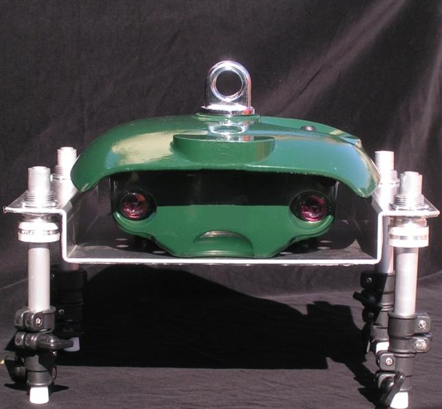 TIRTL speed and vehicle measurer on portable stand